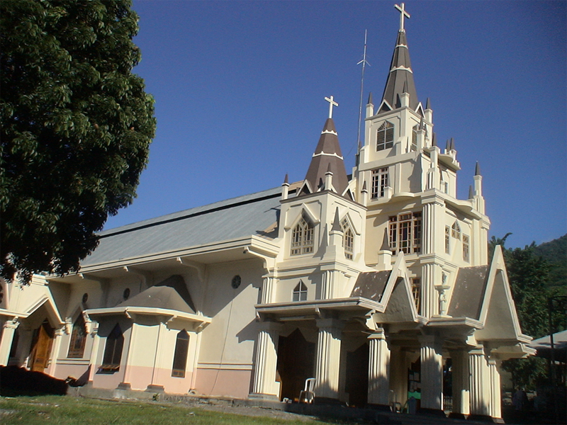 Cathedral at Larantuka, Flores